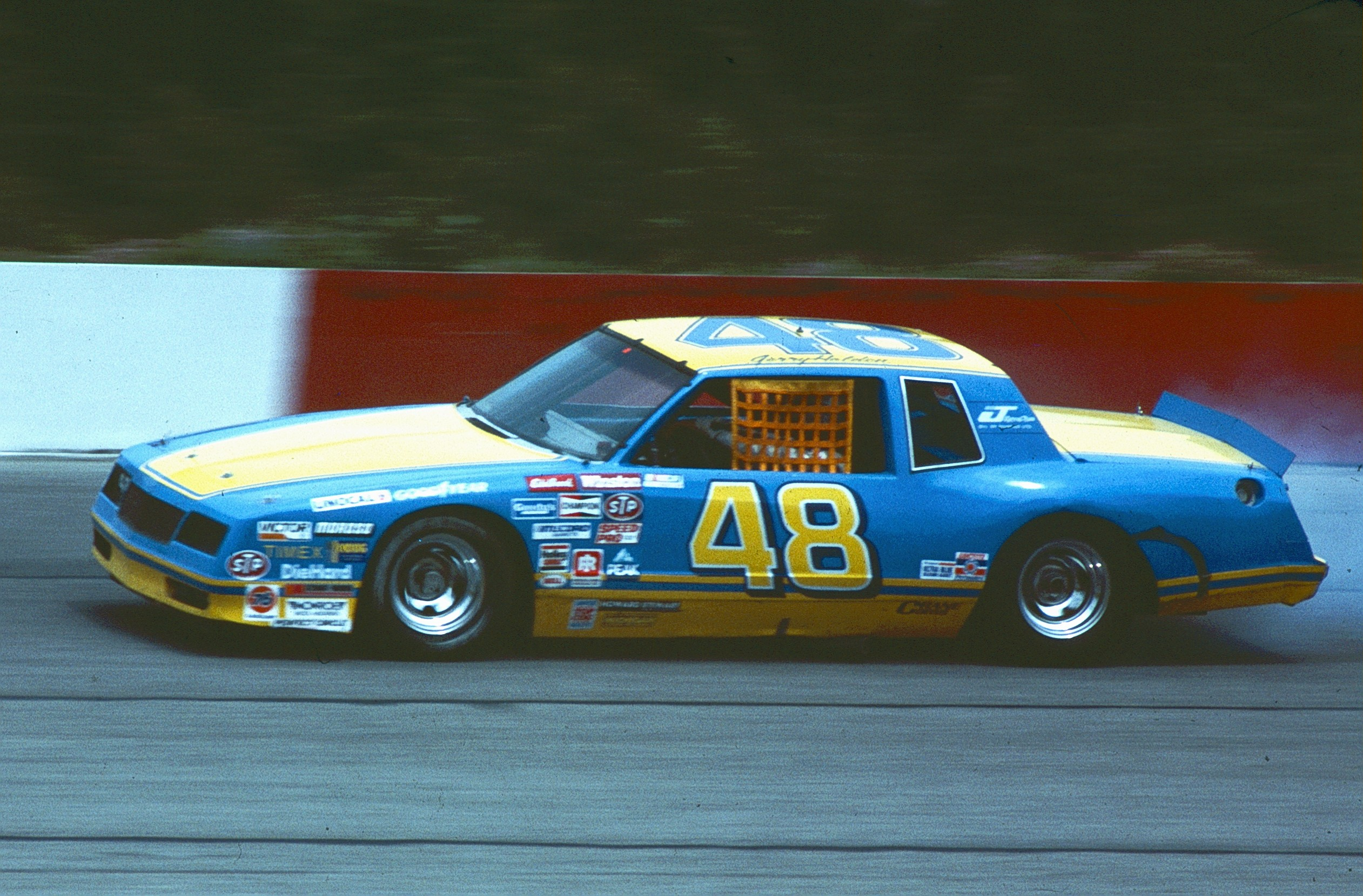 NASCAR driver Don Hume in 1985 at Pocono. Photo By Ted Van Pelt